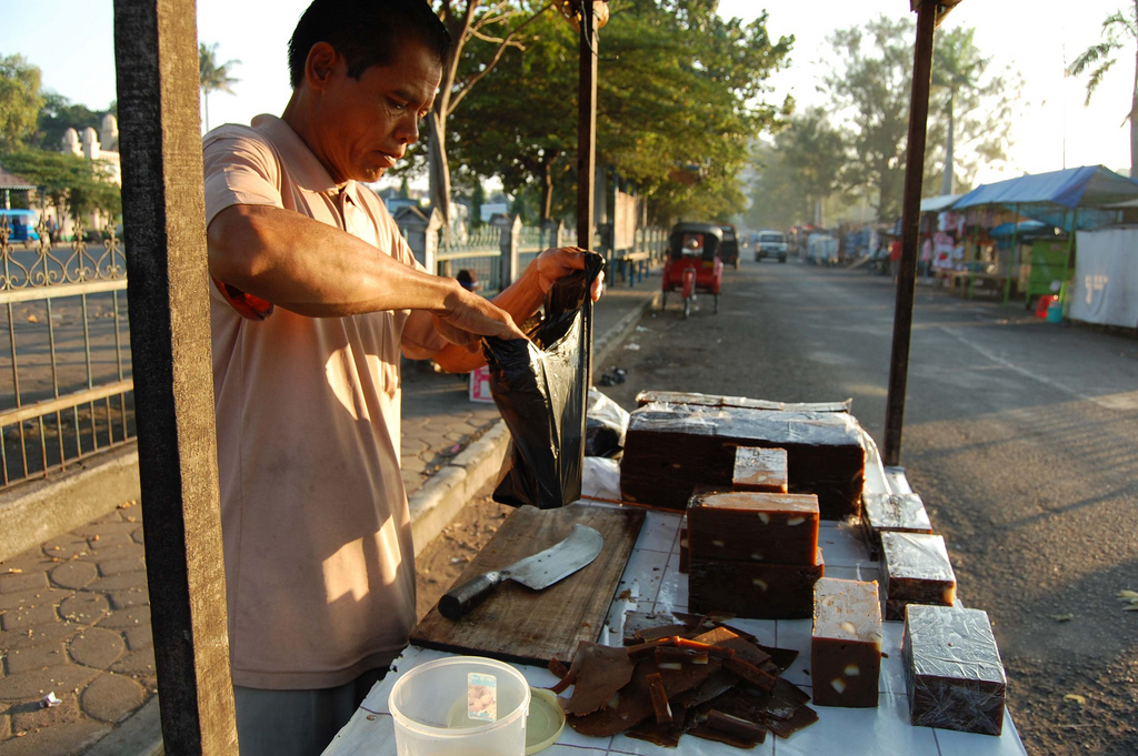 Jenang or Dodol is made from sticky rice, coconut milk, and palm sugar. Pasar Klewer, Solo. Central Java - Indonesia